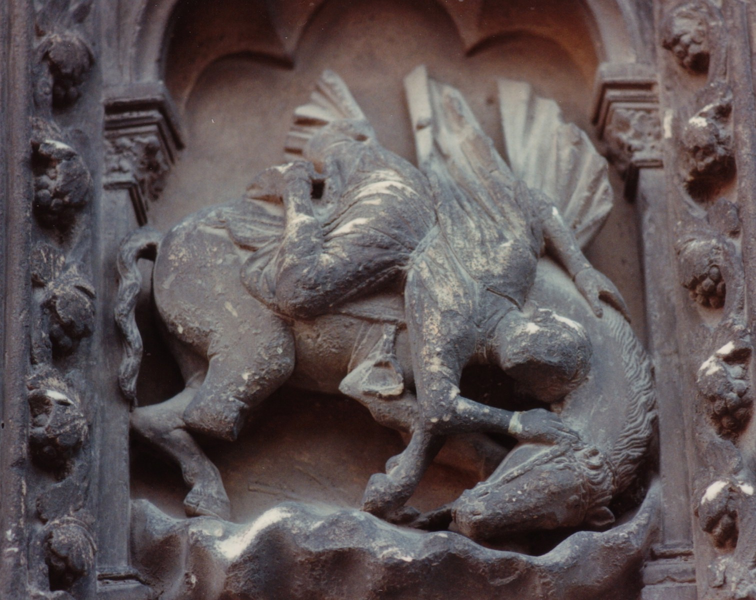 Depiction of Pride on the left pillar of the central bay of the south porch of Chartres Cathedral